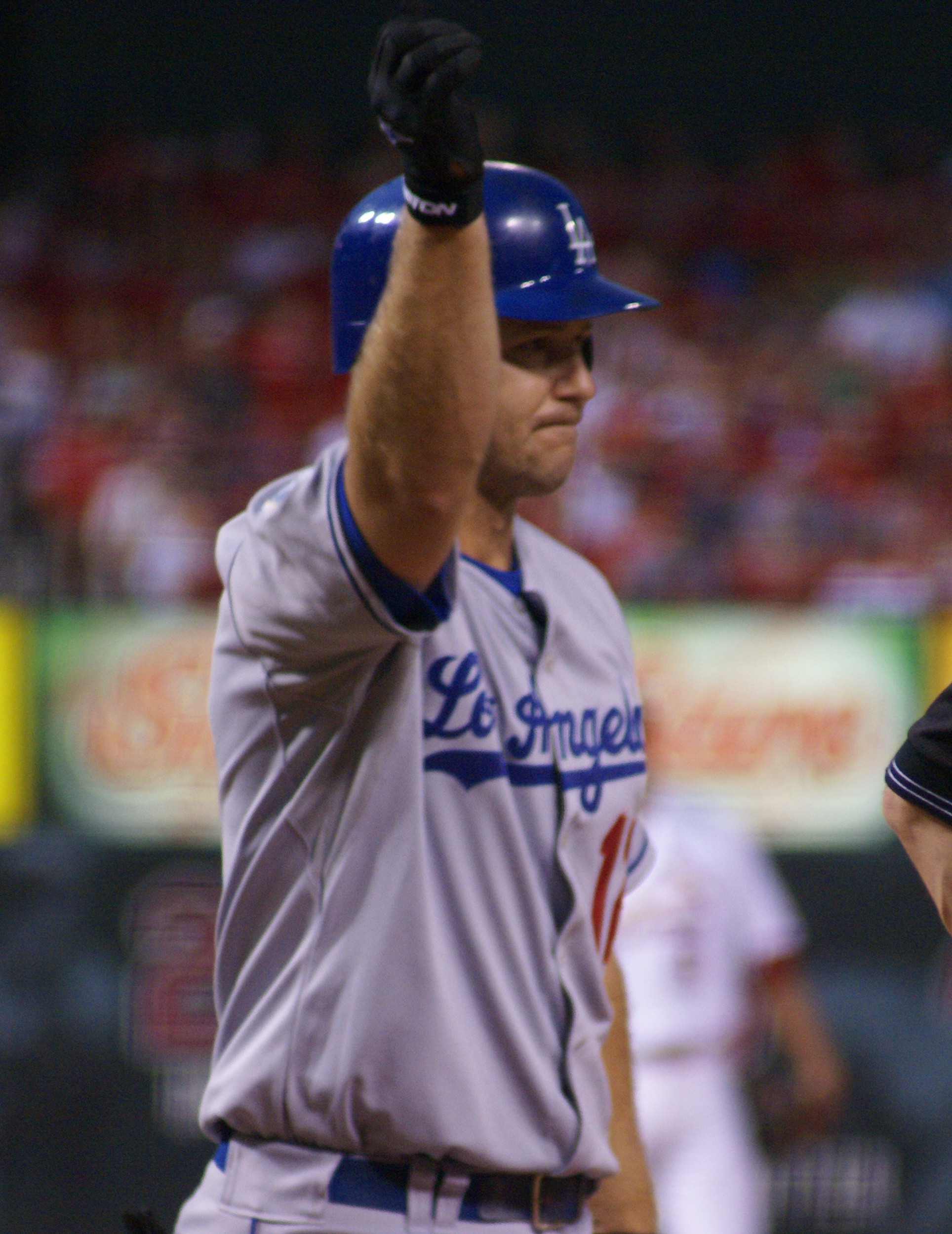 Cropped version of File:DSC03207 Jeff Kent.jpg